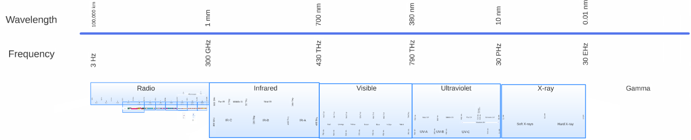 Electromagnetic Spectrum